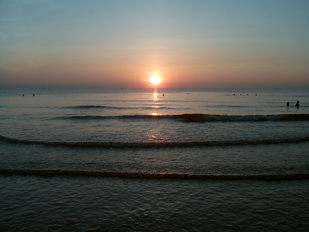 Bình Minh biển Cửa Lò